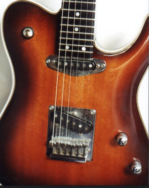 Telecaster copy made by Valley Arts Guitar.